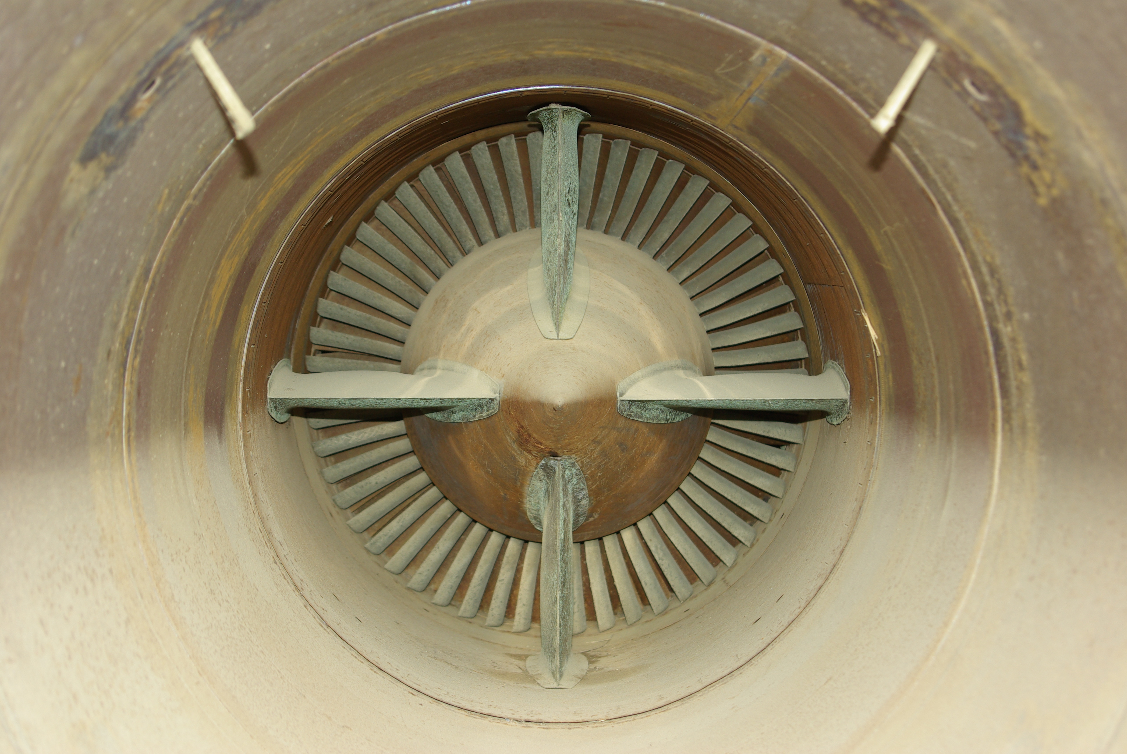 Tubine of a turbojet engine Hispano-Suiza Verdon of a Dasault Mystere IV.